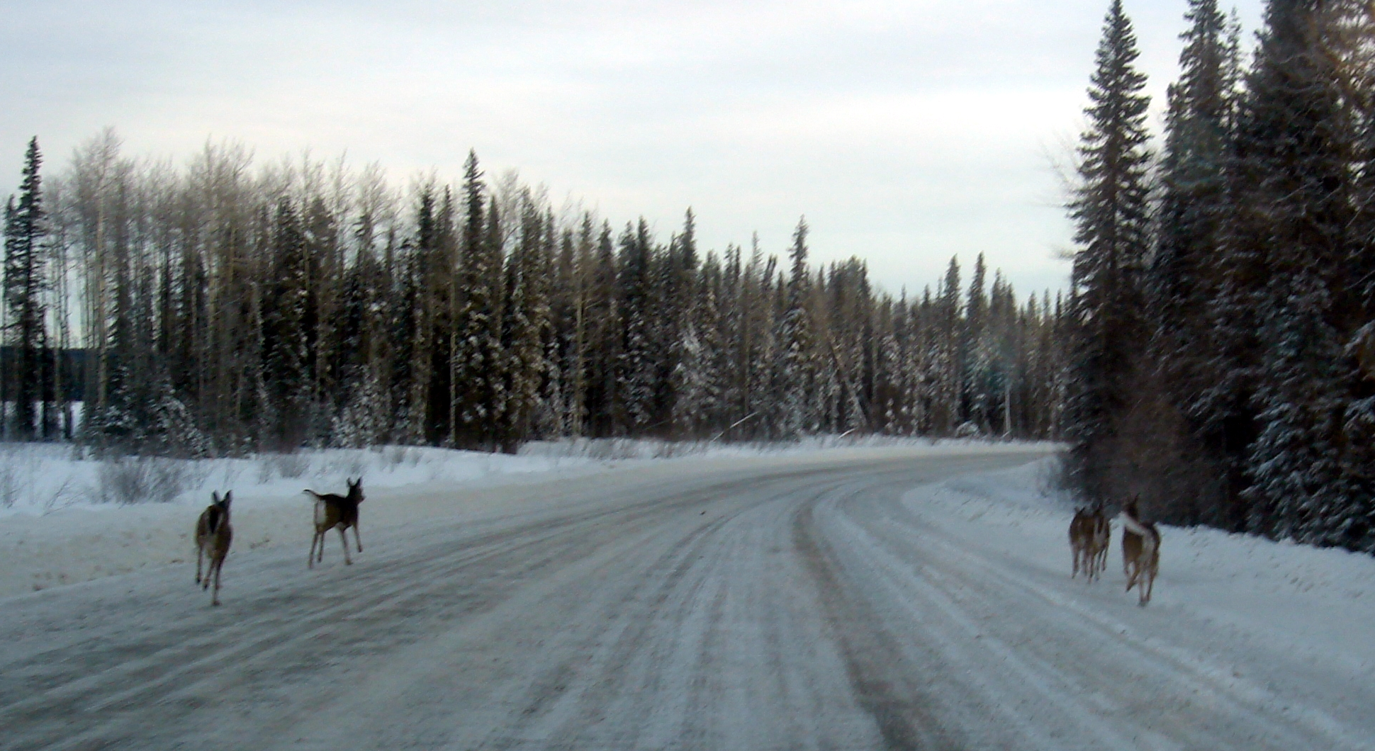 Deer on Winter road in Alberta, Canada, Wapiti Area extension of Alberta Highway 666